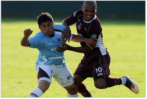 UAI URQUIZA